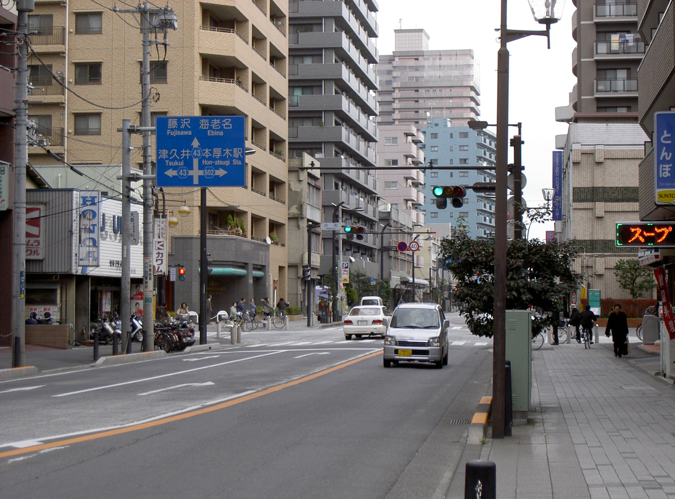 Kanagawa prefectural road route 603 ja: 神奈川県道603号上粕屋厚木線の終点付近